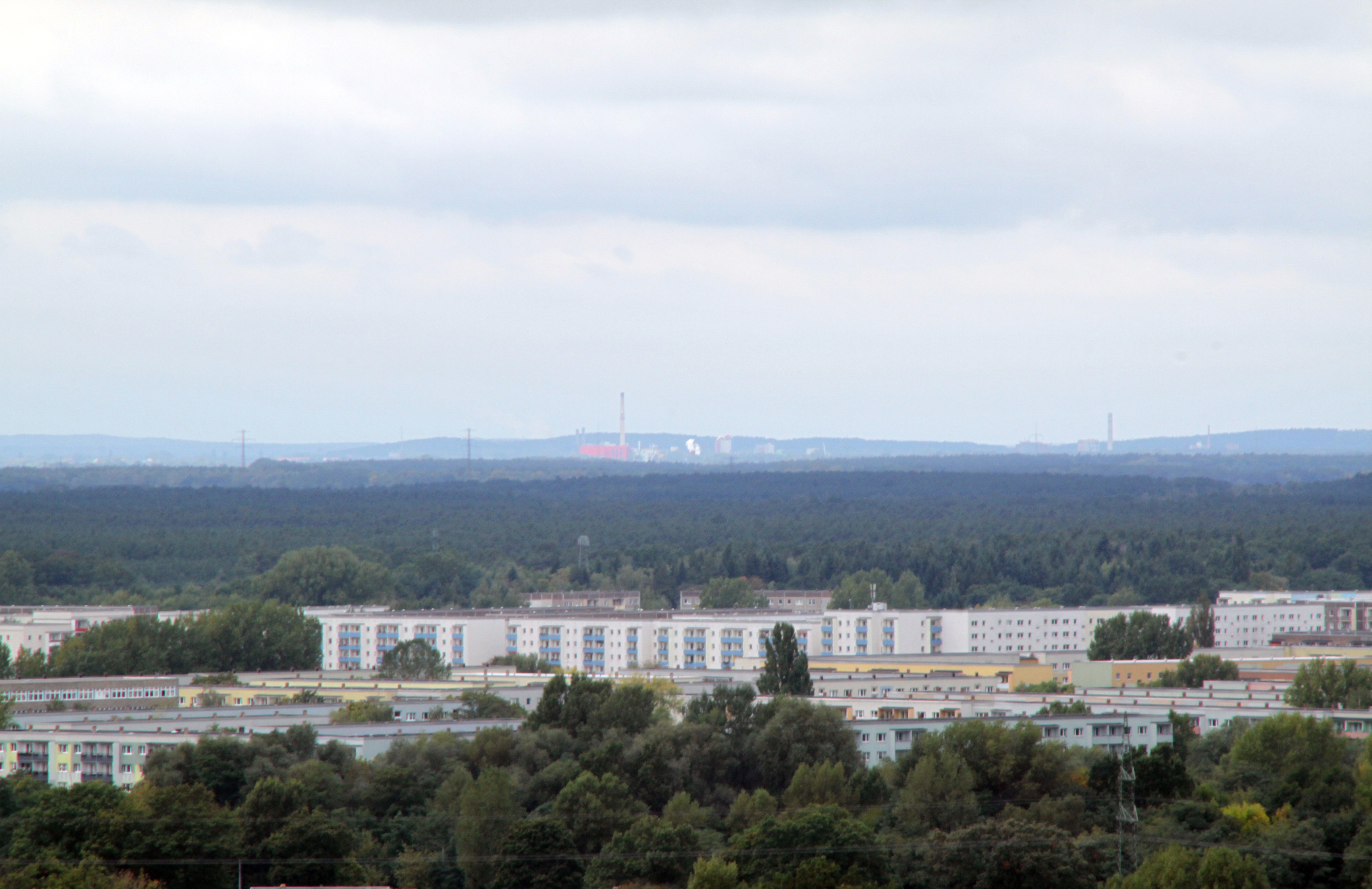 The northwestern part of the borough Nord of Brandenburg-City, seen from south.